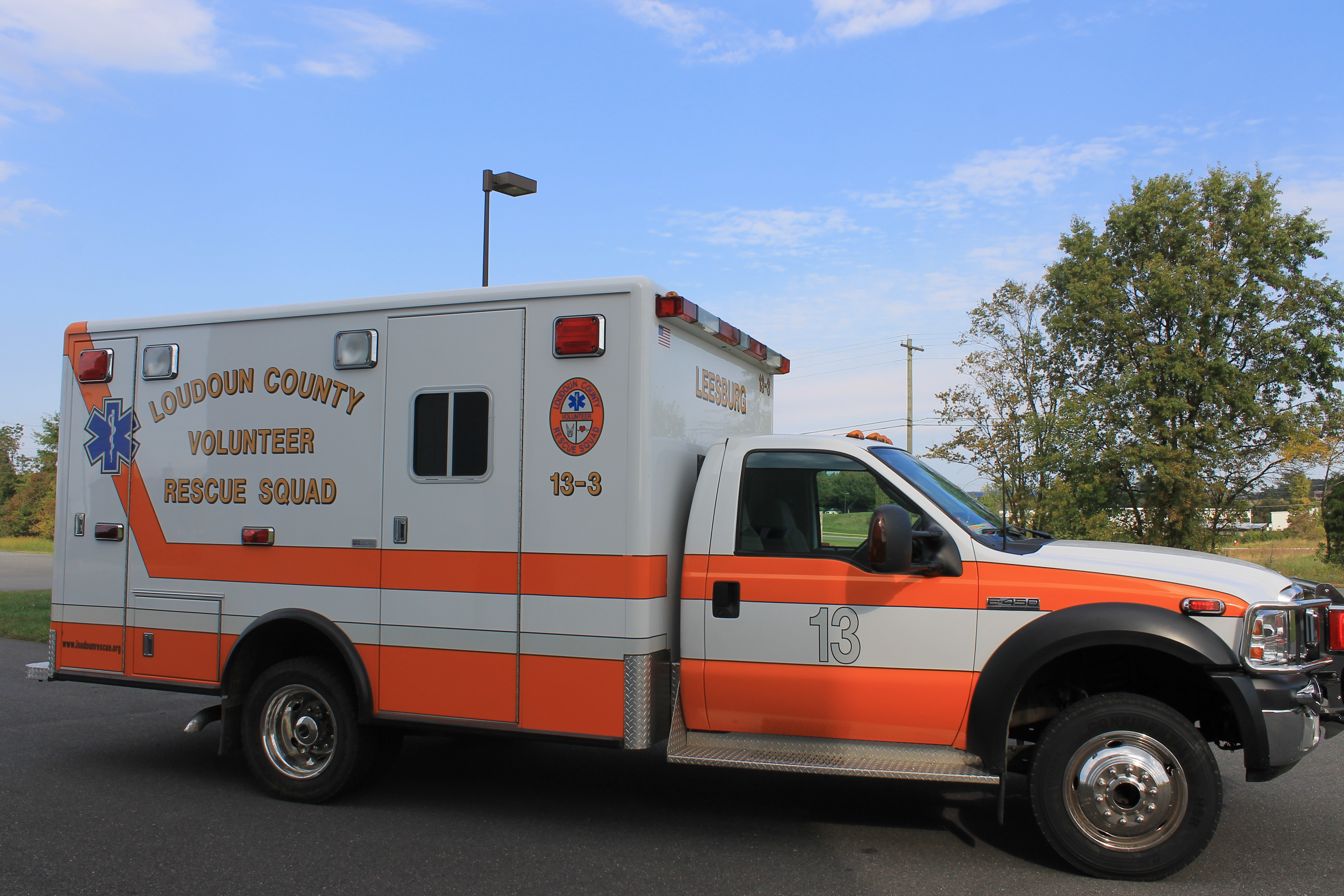 Loudoun County Volunteer Rescue Squad's Ambulance 613-3, parked outside the Rock of the LCFR Training Center